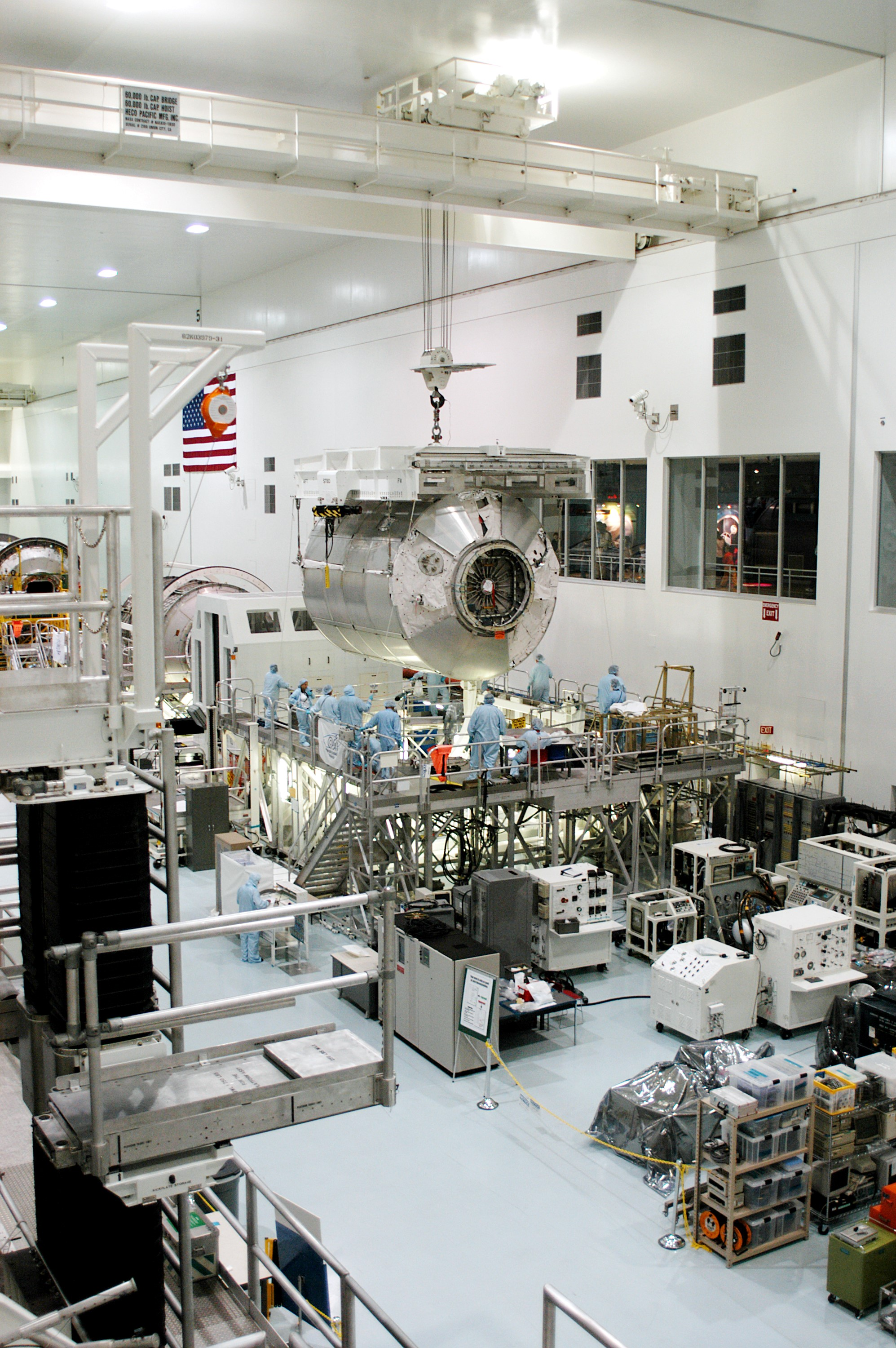 A Multipurpose Logistics Module being hoisted by overhead cranes in the Space Station Processing Facility KENNEDY SPACE CENTER, FLA. - In the Space Station Processing Facility, the Multi-Purpose Logistics Module Donatello is slowly lowered toward a work stand. Previously housed in the Operations and Checkout Building, Donatello was brought into the SSPF for routine testing. This is the first time all three MPLMs (Donatello, Raffaello and Leonardo) are in the SSPF. The MPLMs were built by the Italian Space Agency, to serve as reusable logistics carriers and the primary delivery system to resupply and return station cargo requiring a pressurized environment. The third MPLM, Raffaello is scheduled to fly on Space Shuttle Atlantis on mission STS-114.